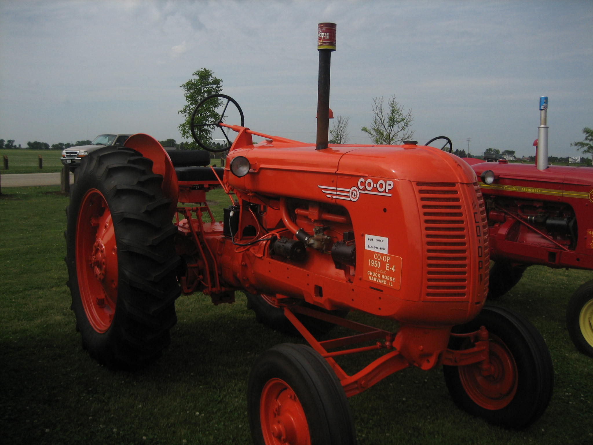 A 1950 E-4 (Standard) by the Cockshutt & CO-OP tractor company. On display in Harvard, Illinois during Milk Days 2007.